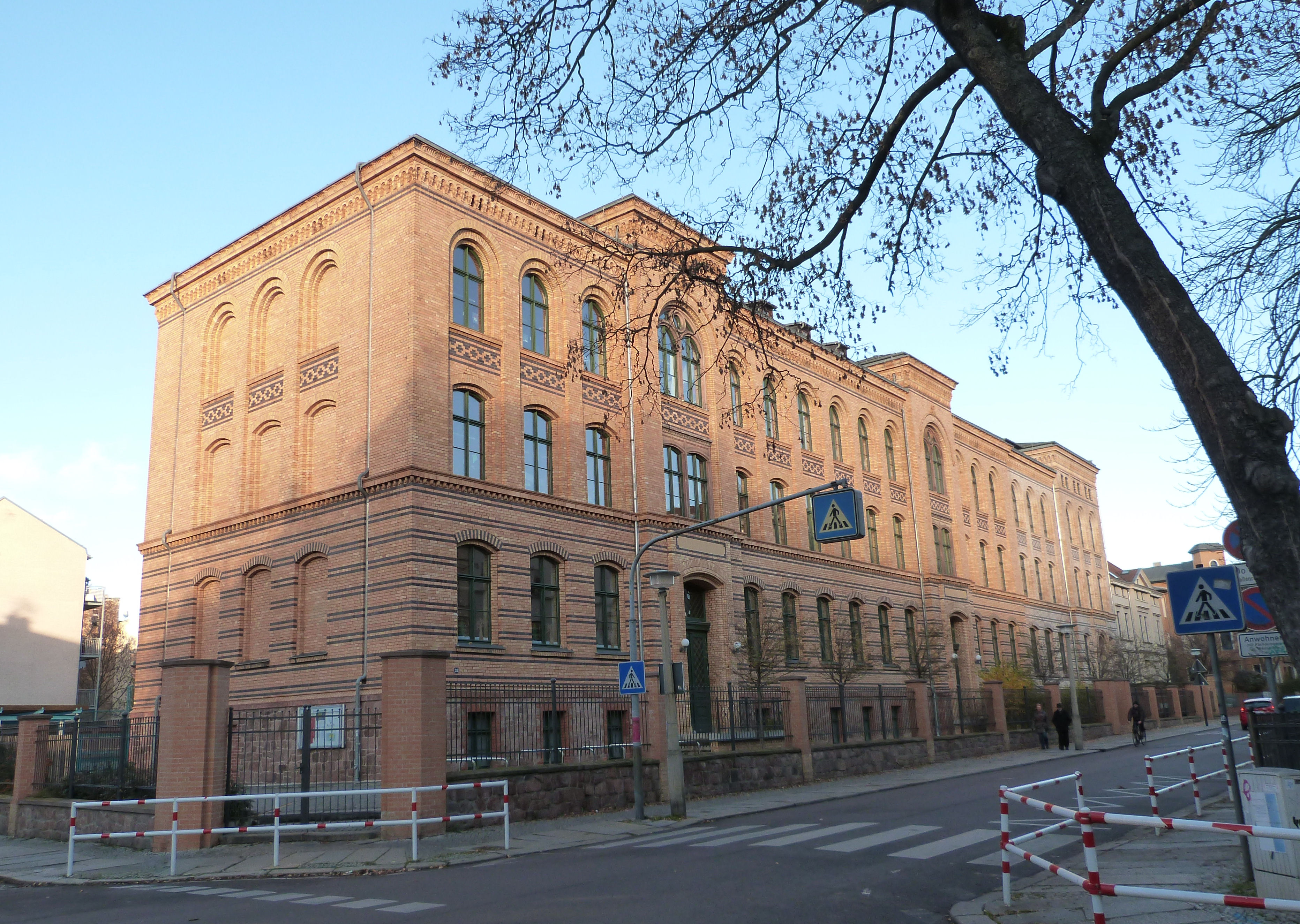 Elementary school Neumarkt, Hermannstraße No. 32, Halle (Saale)